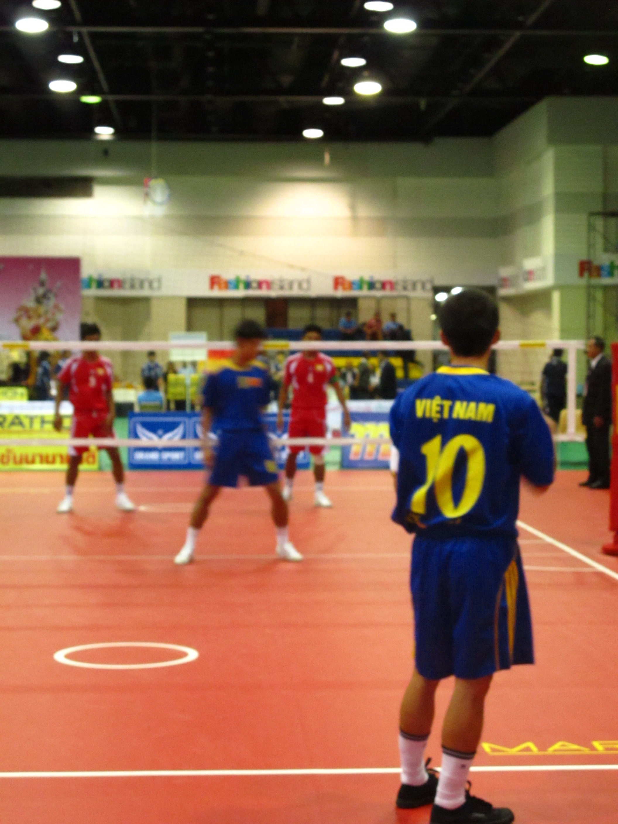 Vietnam Team in King's Cup Sepak Takraw